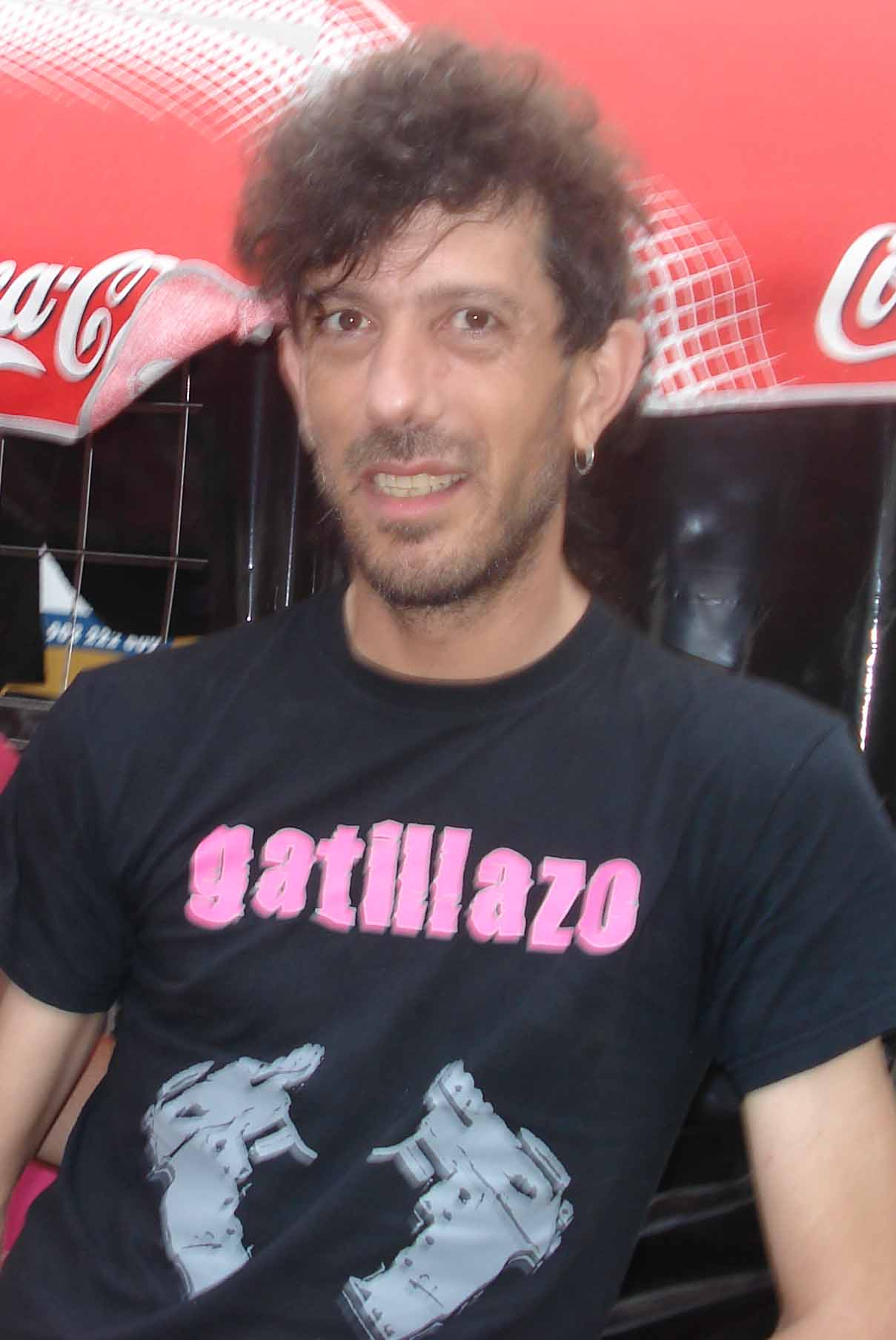 Manolo Kabezabolo on Derrame Rock 12th edition (june 2007)